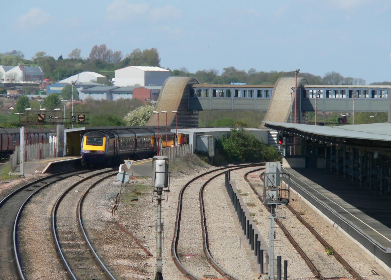 A view of Bristol Parkway railway station viewed from the unnamed bridge leading off Hambrook Lane, about a third of a mile east of the station. A First Great Western HST is at the westbound platform, a northbound Virgin Voyager at the other passenger platform can be seen reflected on the side of the HST. The pltaform on the right is for the now disused Royal Mail depot, constructed at great expense very shortly before the end of mail on rail.